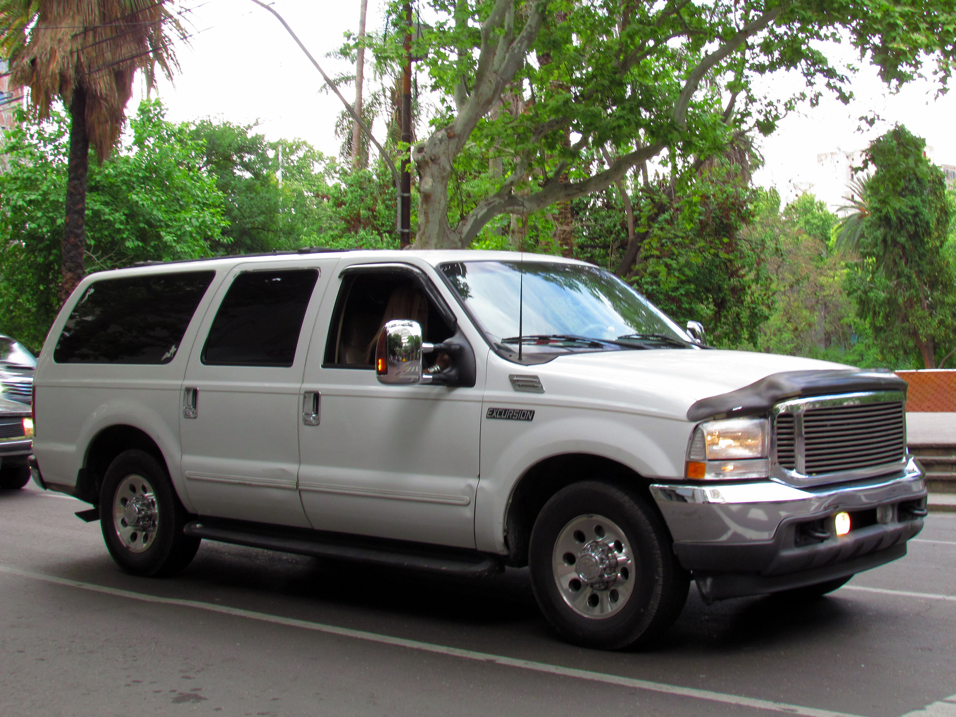 Ford Excursion XLT 2001